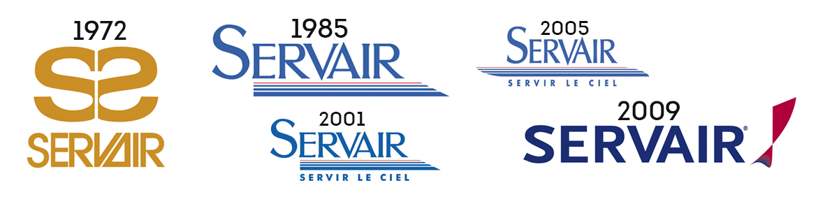 All logo's evolutions since 1972